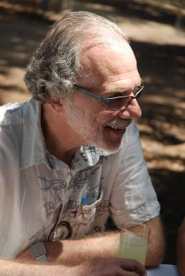 Arie Shilo